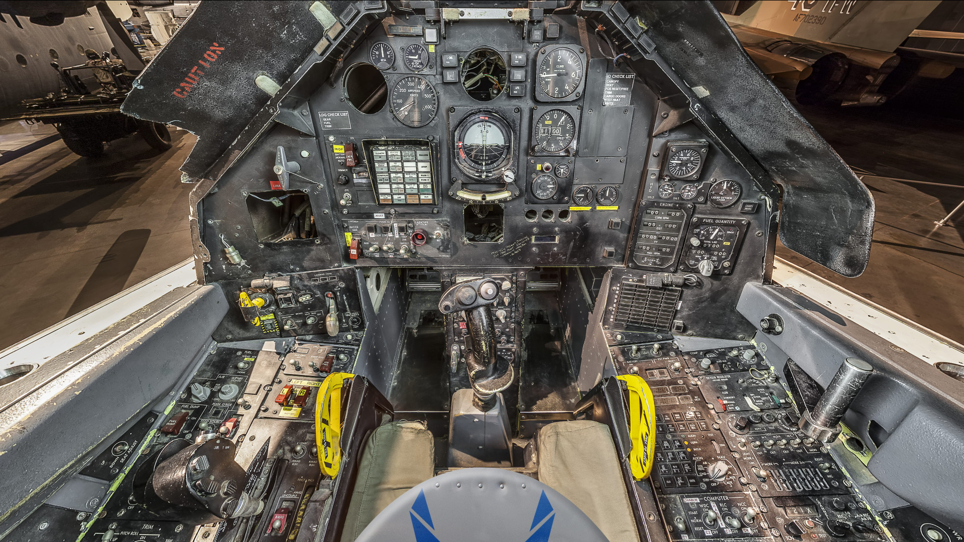 Lockheed F-117A, National Museum of the United States Air Force, Wright-Patterson Air Force Base, near Dayton, Ohio, USA, cockpit